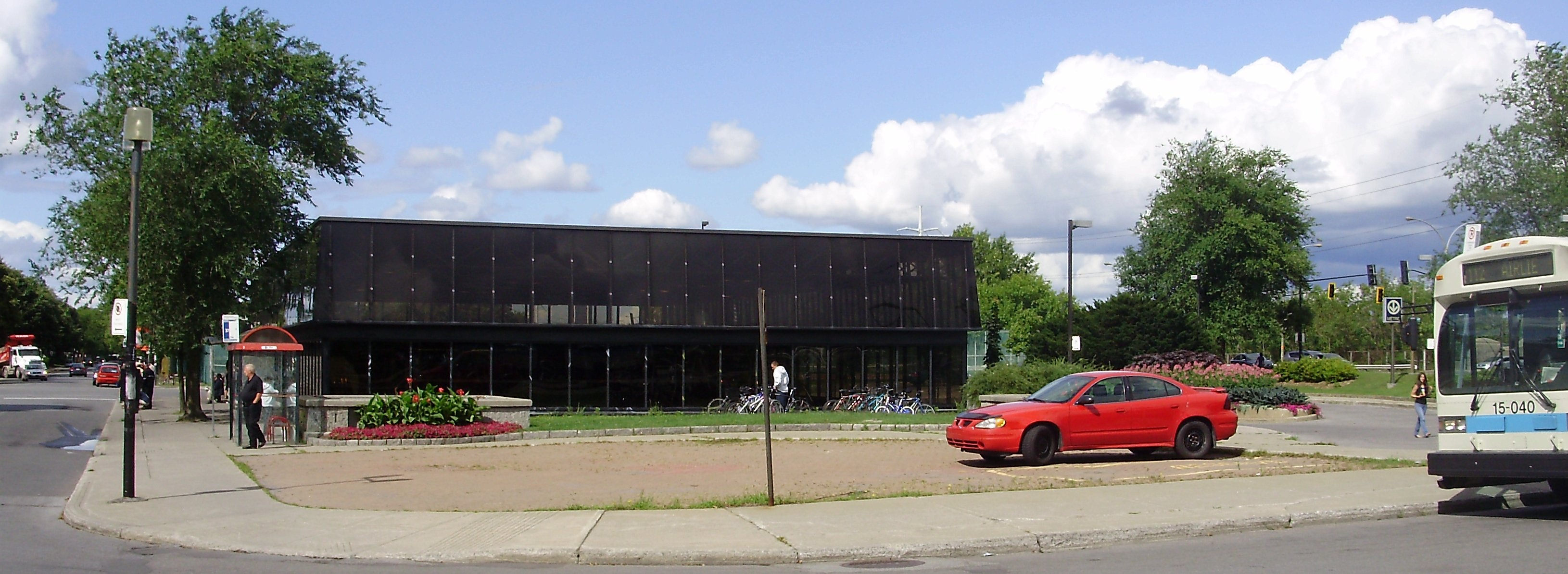 The Société de transport de Montréal's Jolicoeur metro station in Montreal, Quebec, Canada.